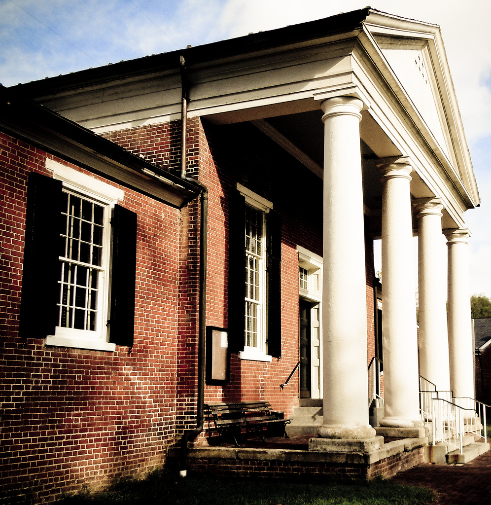 Nottoway County Courthouse, Nottaway Virginia